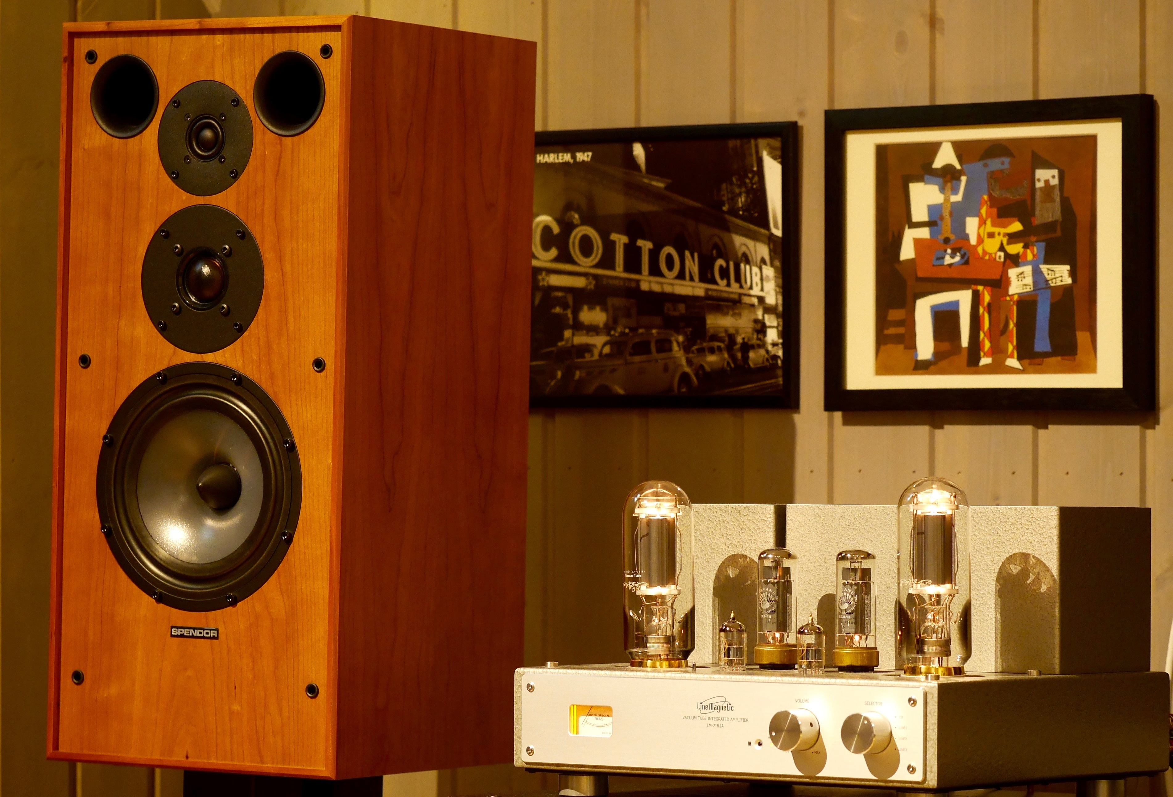 New speakers has arrived. The classic Spendor SP1/2R2.